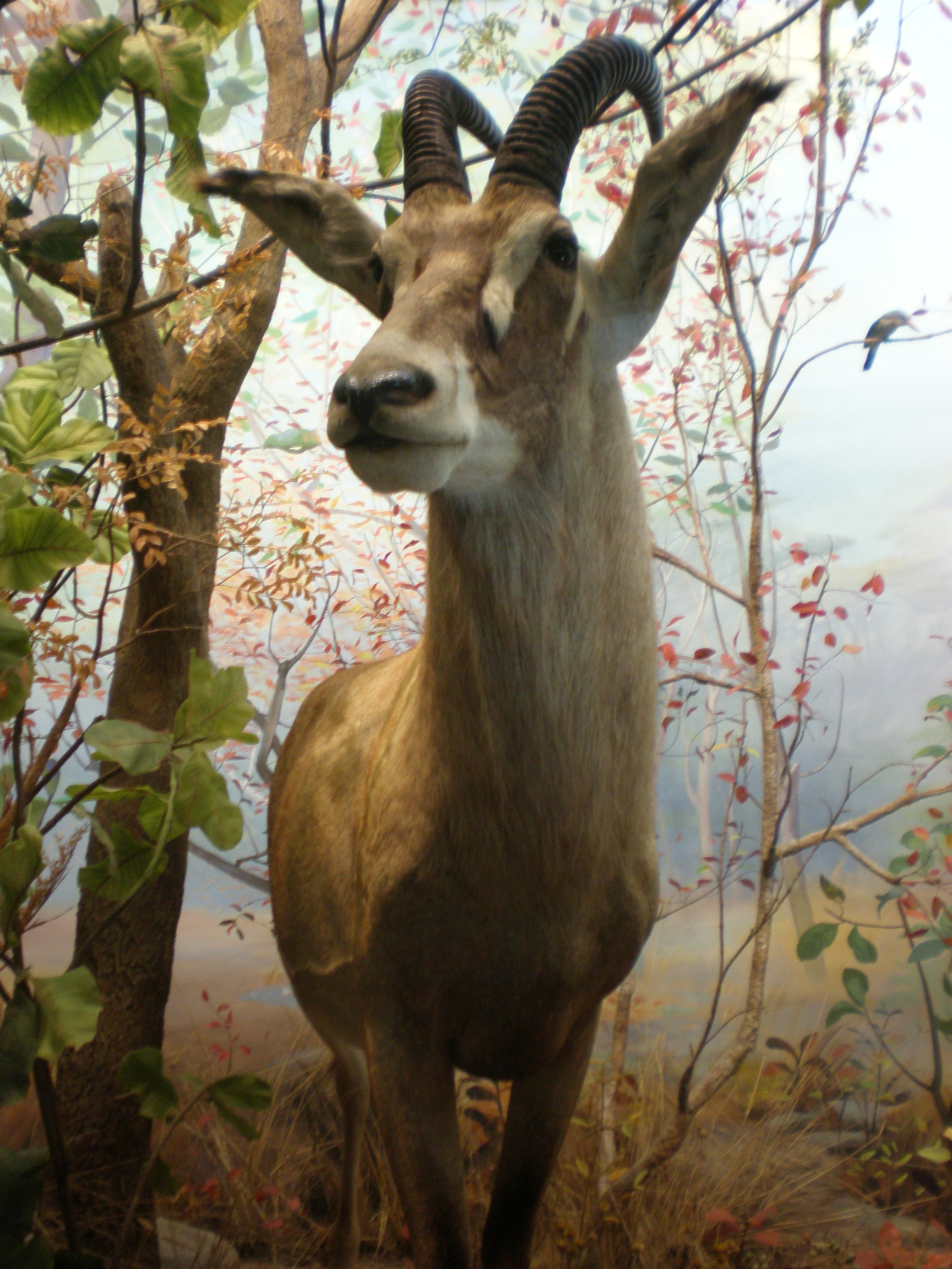 Roan Antelope (Hippotragus equinus) in the African Hall of the Kimball Natural History Museum at the California Academy of Sciences in San Francisco.